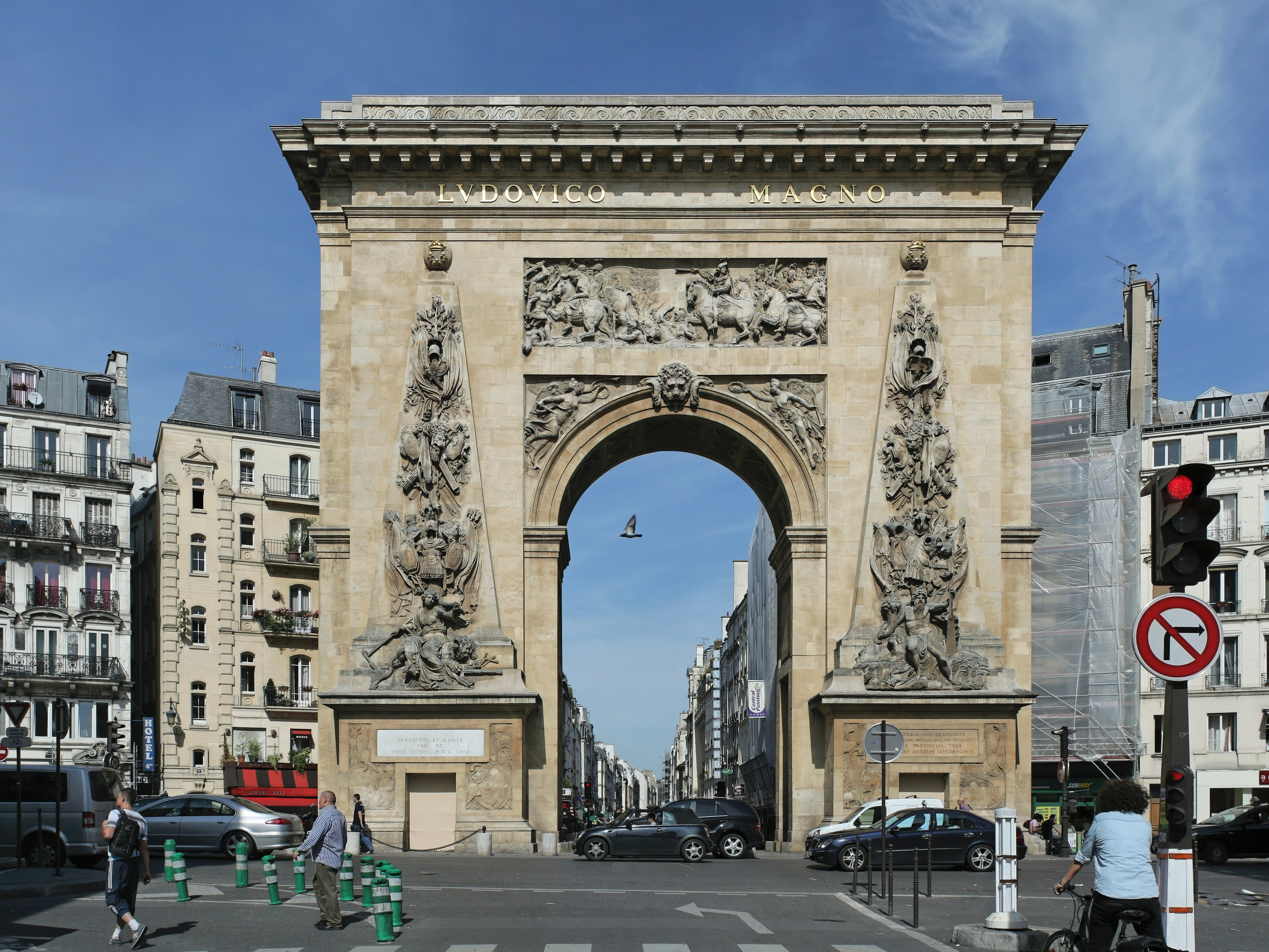 Porte Saint-Denis in Paris, from the South.